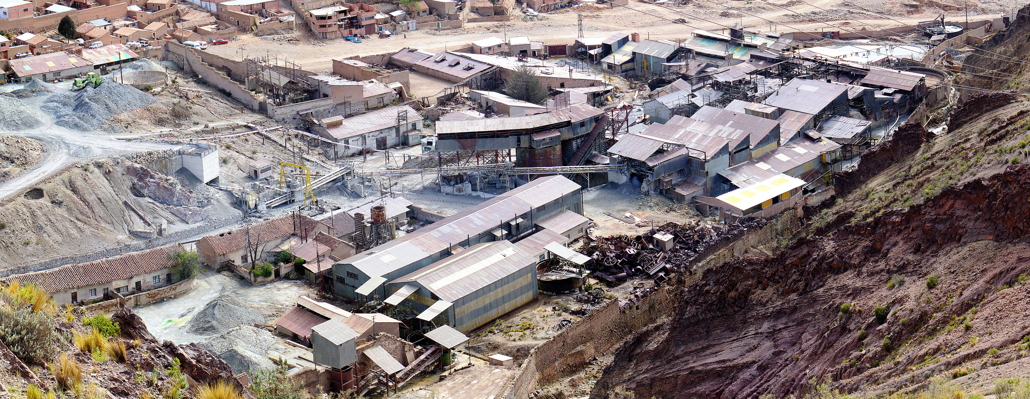 Please, have this description accessible to all by translating it in different languages.